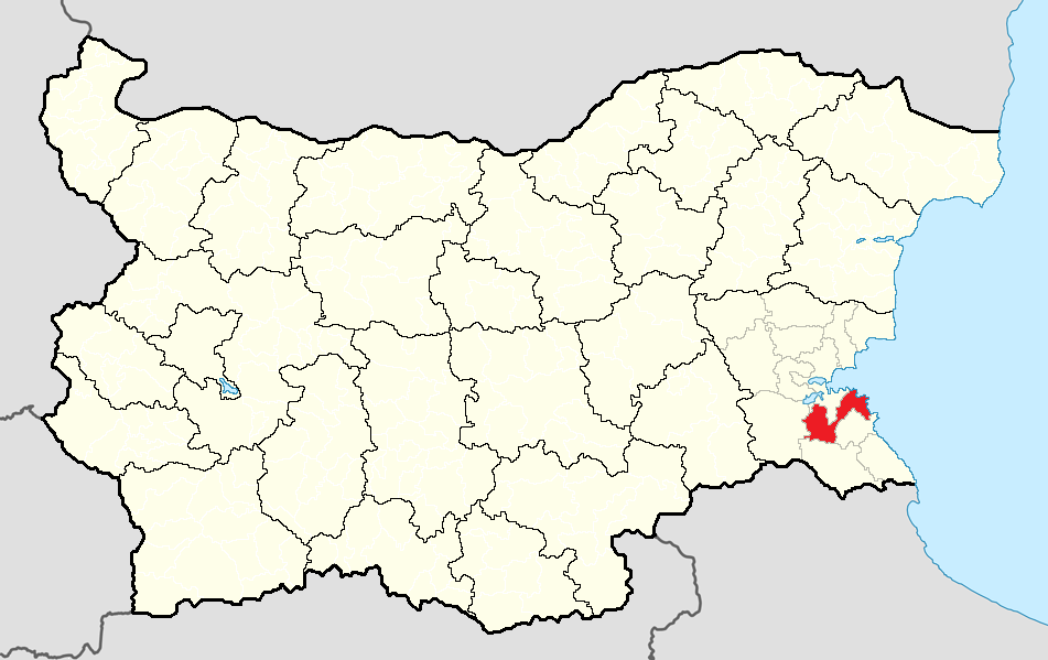 Location map of Sozopol Municipality within Bulgaria and Burgas Province Equirectangular projection, N/S stretching 130 %. Geographic limits of the map: N: 44.4° N S: 41.1° N W: 22.1° E E: 28.9° E